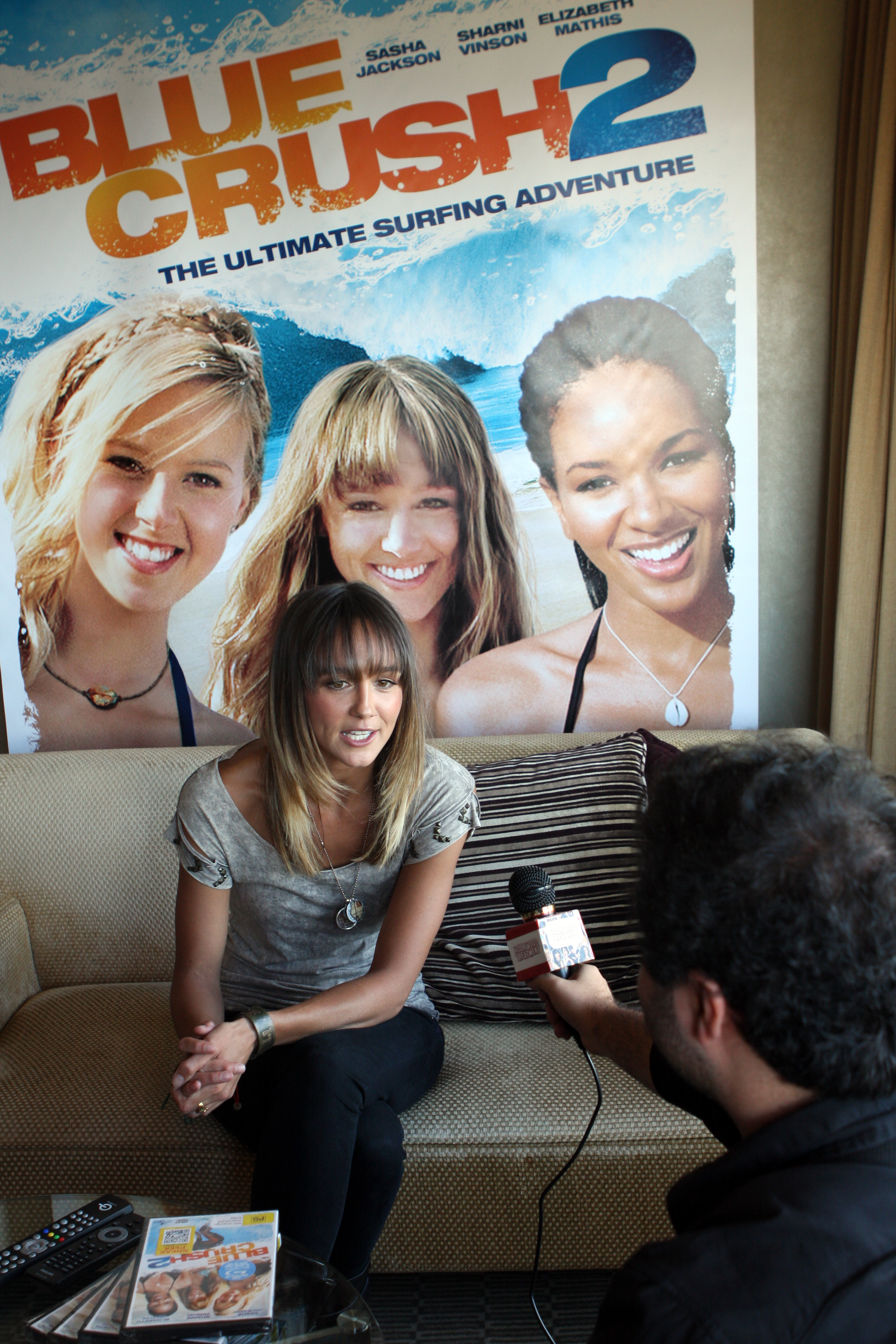 Sharni Vinson (born July 22, 1983) is an Australian model, actress and dancer known for her work in the soap opera Home and Away and the film Step Up 3D. The Aussie actor joined the cast of Universal's “Blue Crush 2 proving that surfing and bikinis are a woefully under-appreciated combination. We can’t wait for the DVD/Blu-ray to come out June 29th, 2011. Don’t forget to look for Roxy Team Rider Rosie Hodge in the movie!